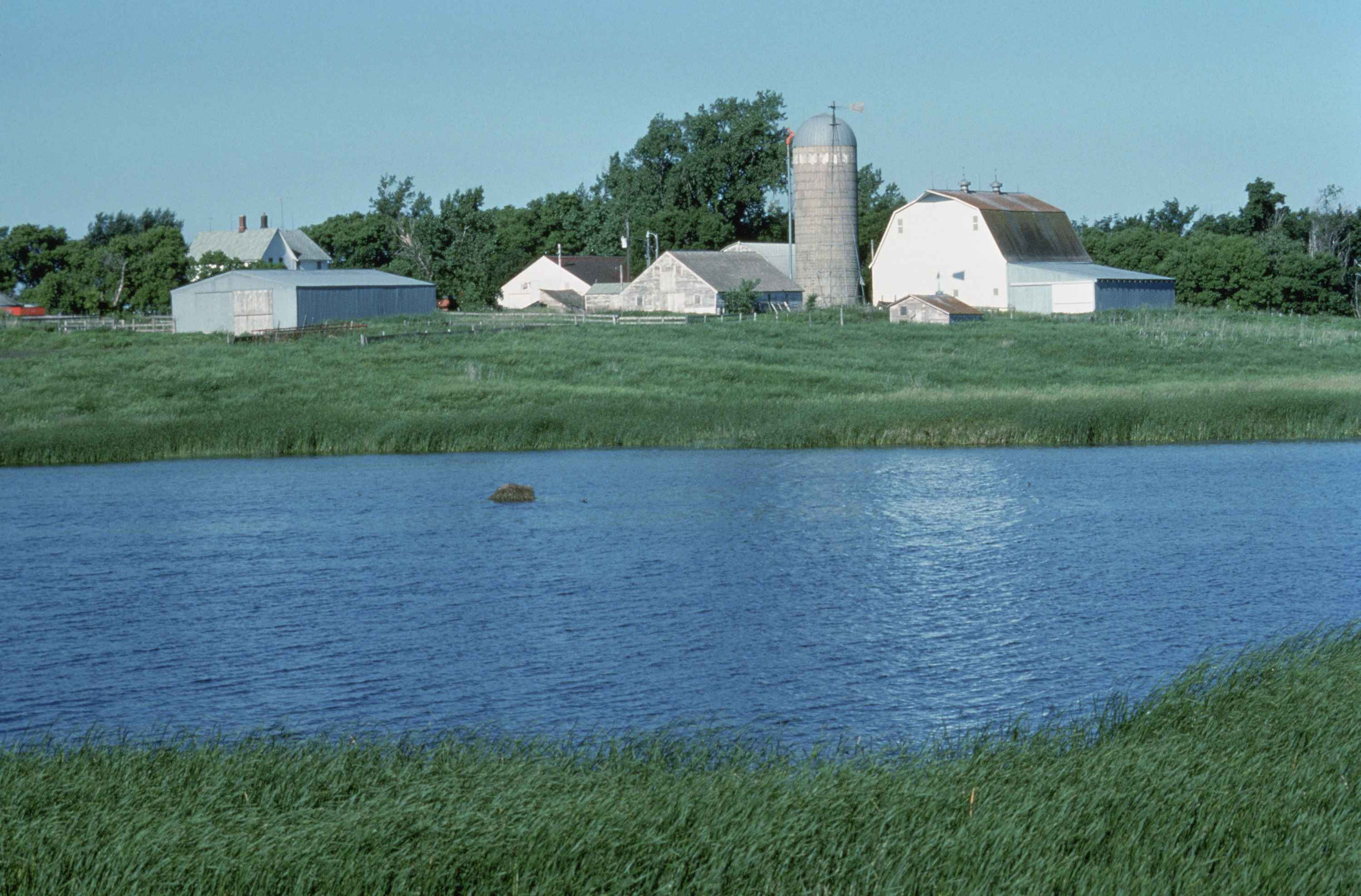 Image title: Ranch surrounded by swamp Image from Public domain images website